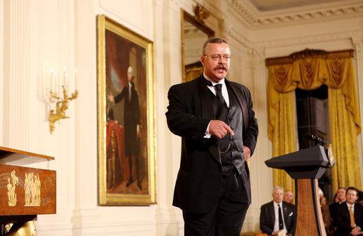 Theodore Roosevelt impersonator Joe Wiegand performs Monday evening, Oct. 27, 2008 in the East Room of the White House, during a celebration of the 150th birthday of Theodore Roosevelt, 26th President of the United States.